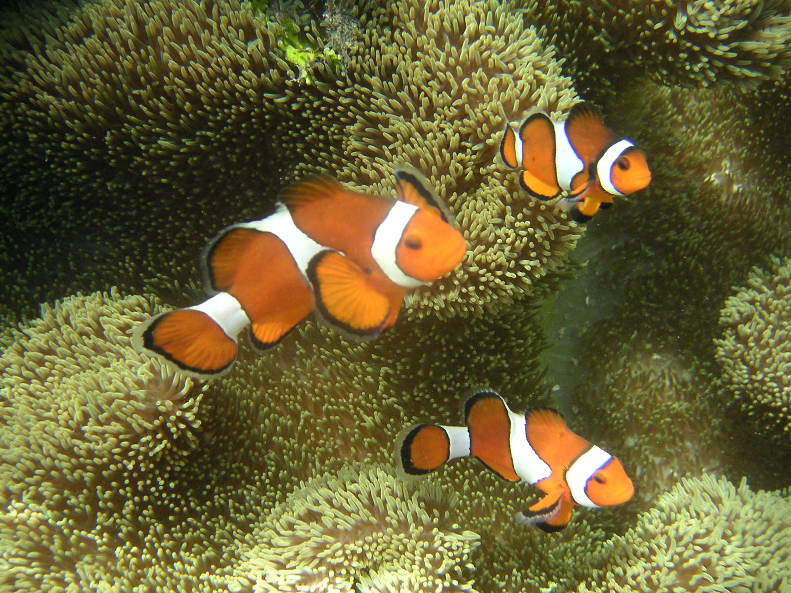 Family of ocellaris clownfish, Miyako Island, Nukuluna false ocellaris